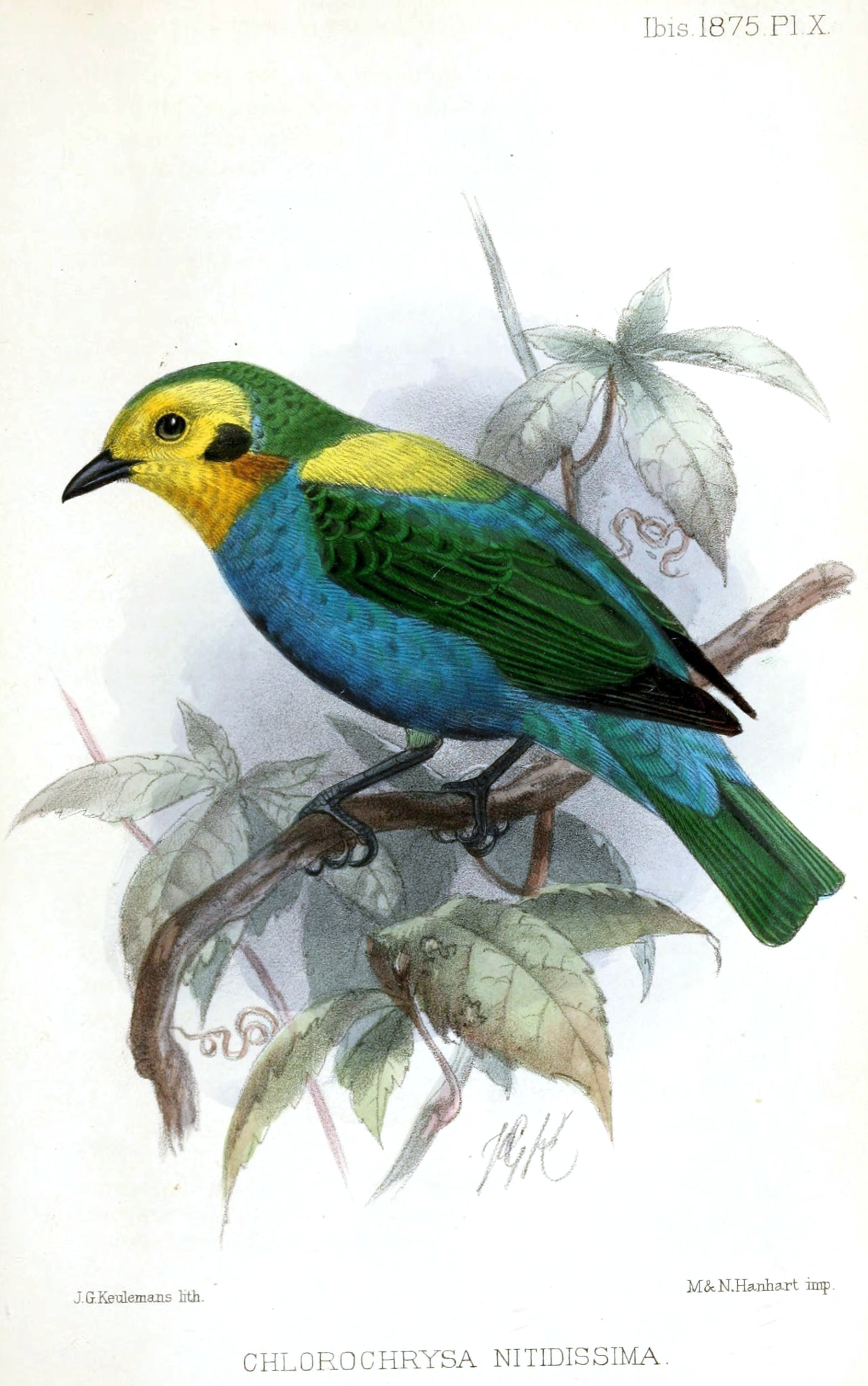 « Chlorochrysa nitidissima » = Chlorochrysa nitidissima (Multicoloured Tanager)